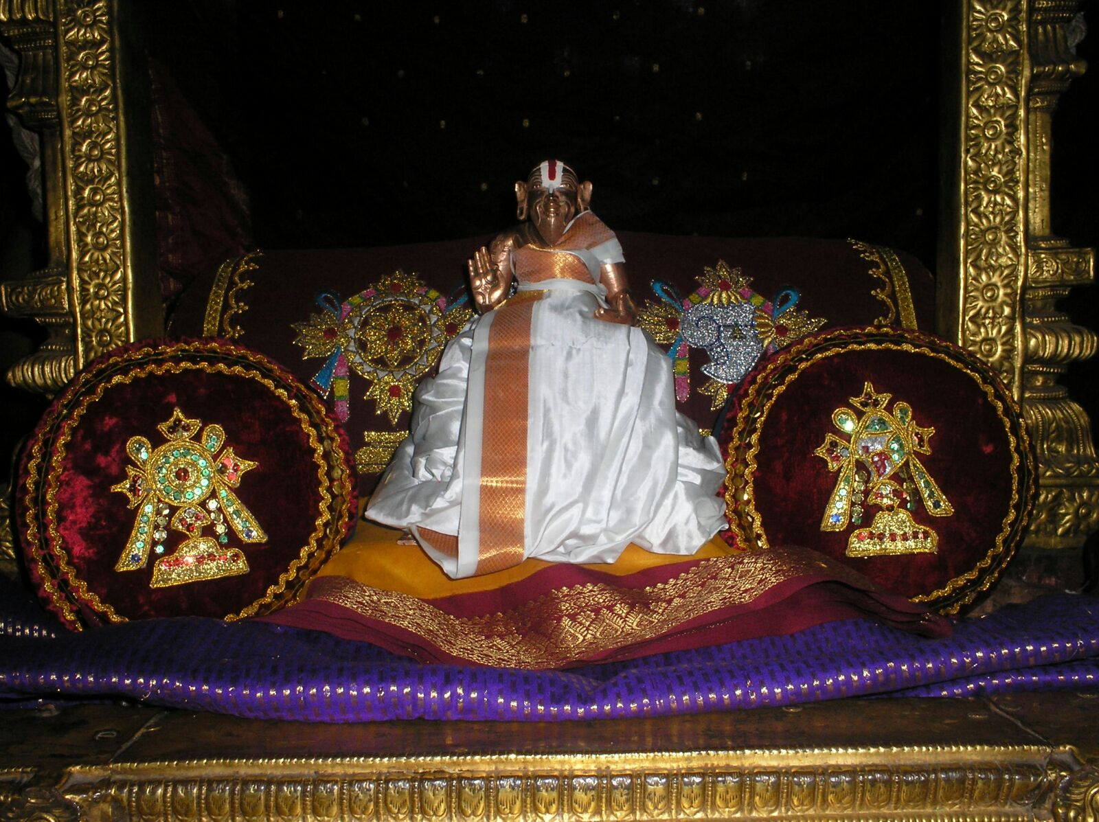 Sholingar